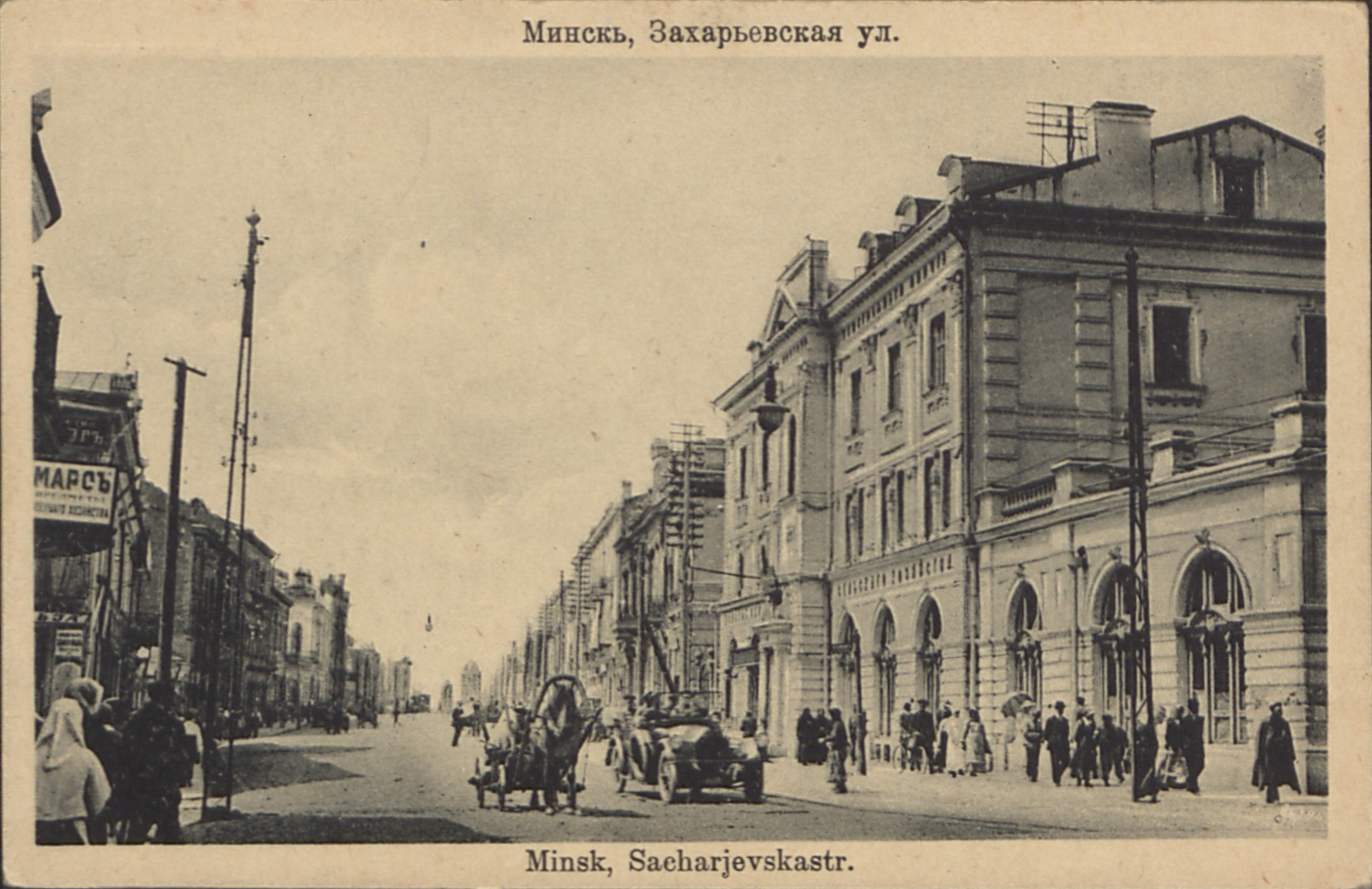 Čapski Palace in Miensk